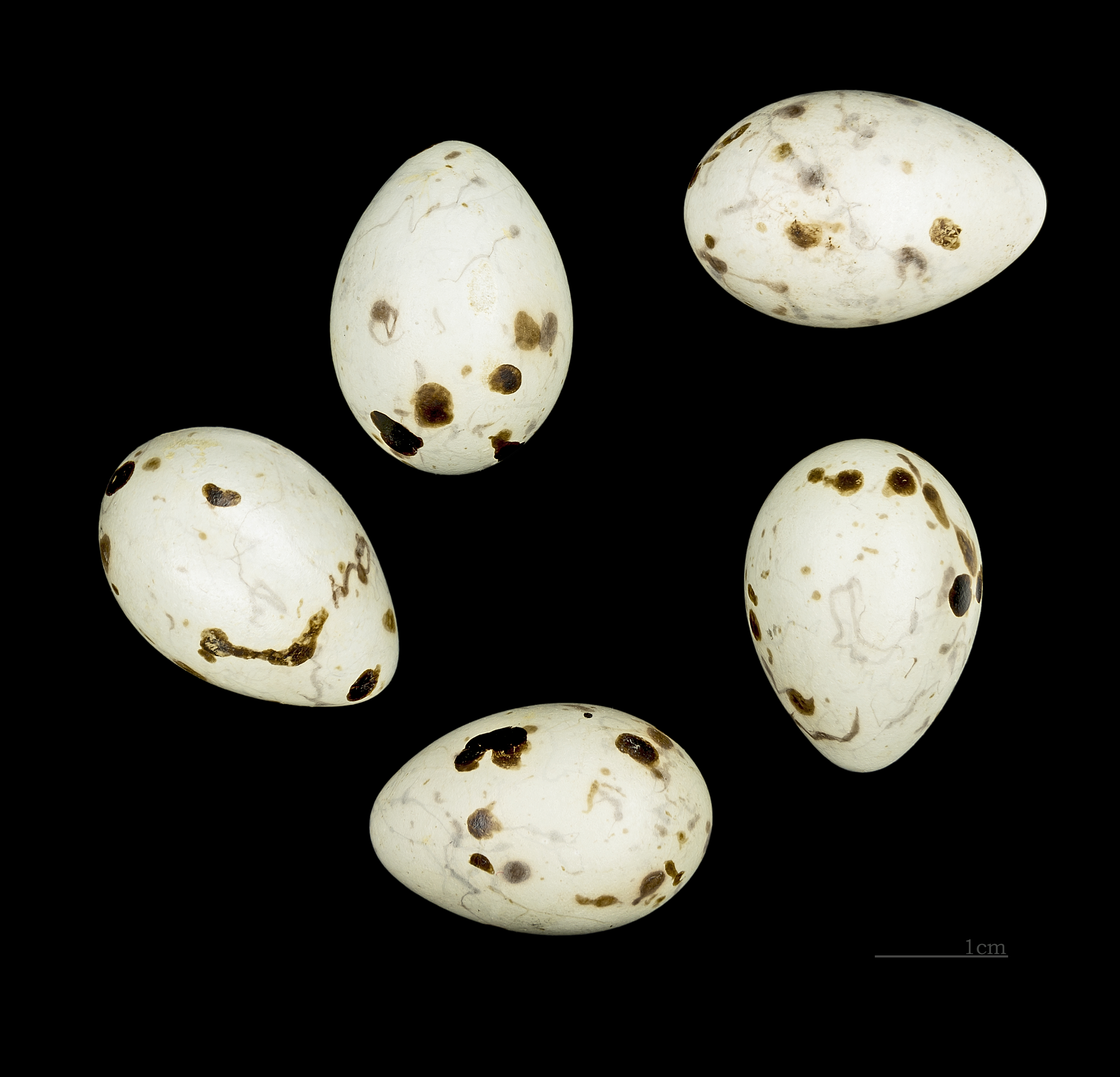 Egg of Hawfinch. Collection of Jacques Perrin de Brichambaut.